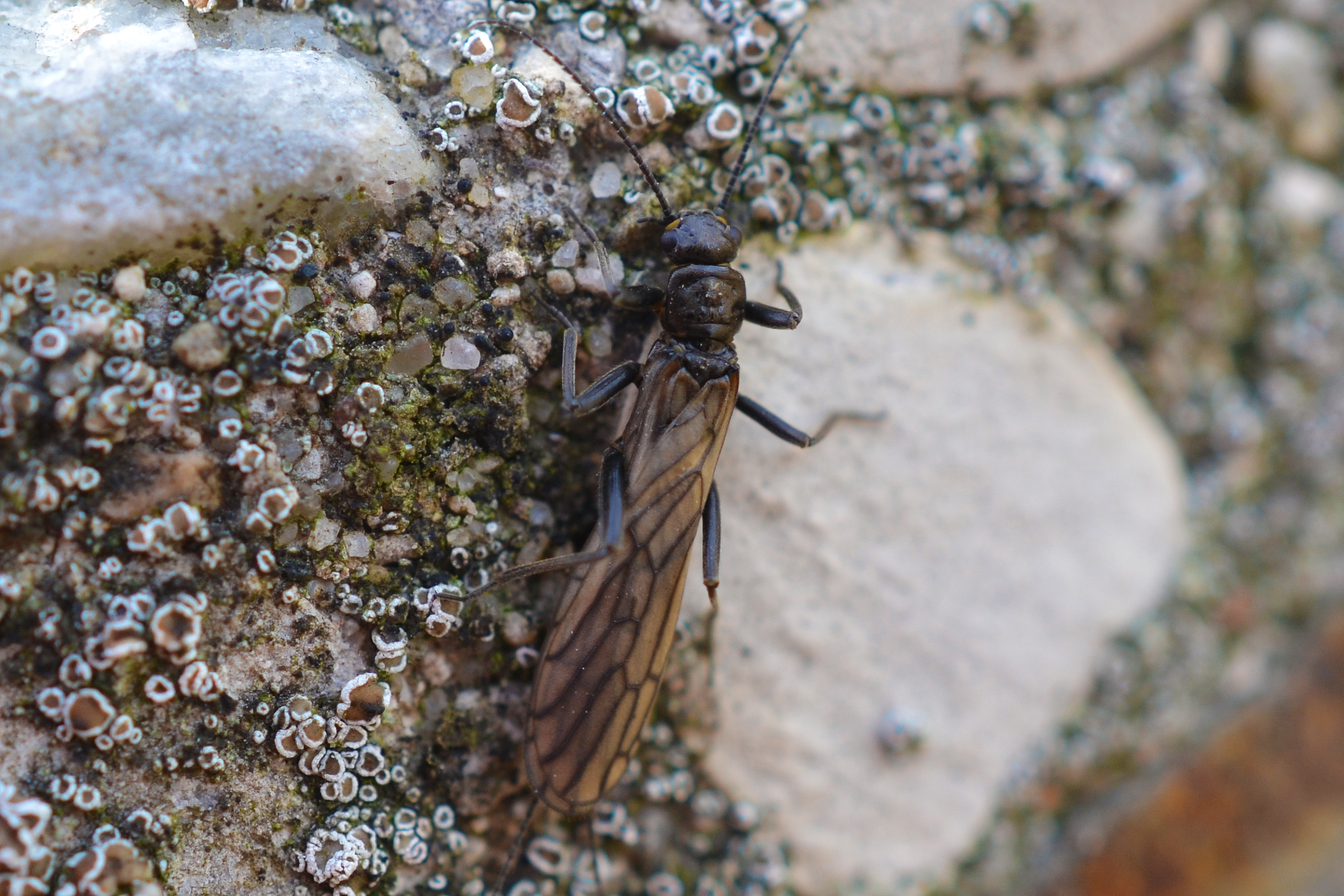 Probably Allocapina sp. Riverside Natural Area, Hamilton, Ohio